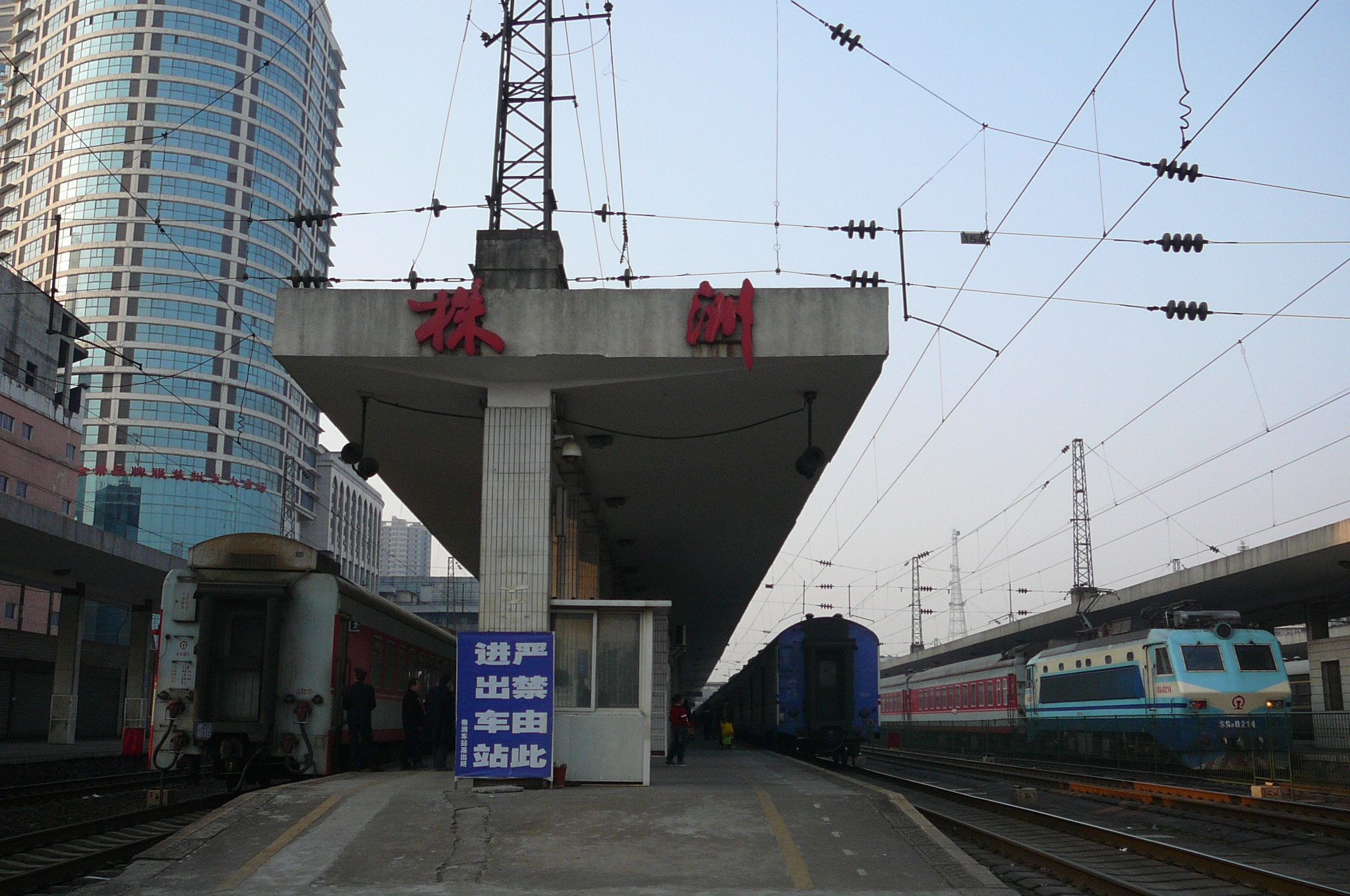 Zhuzhou Station